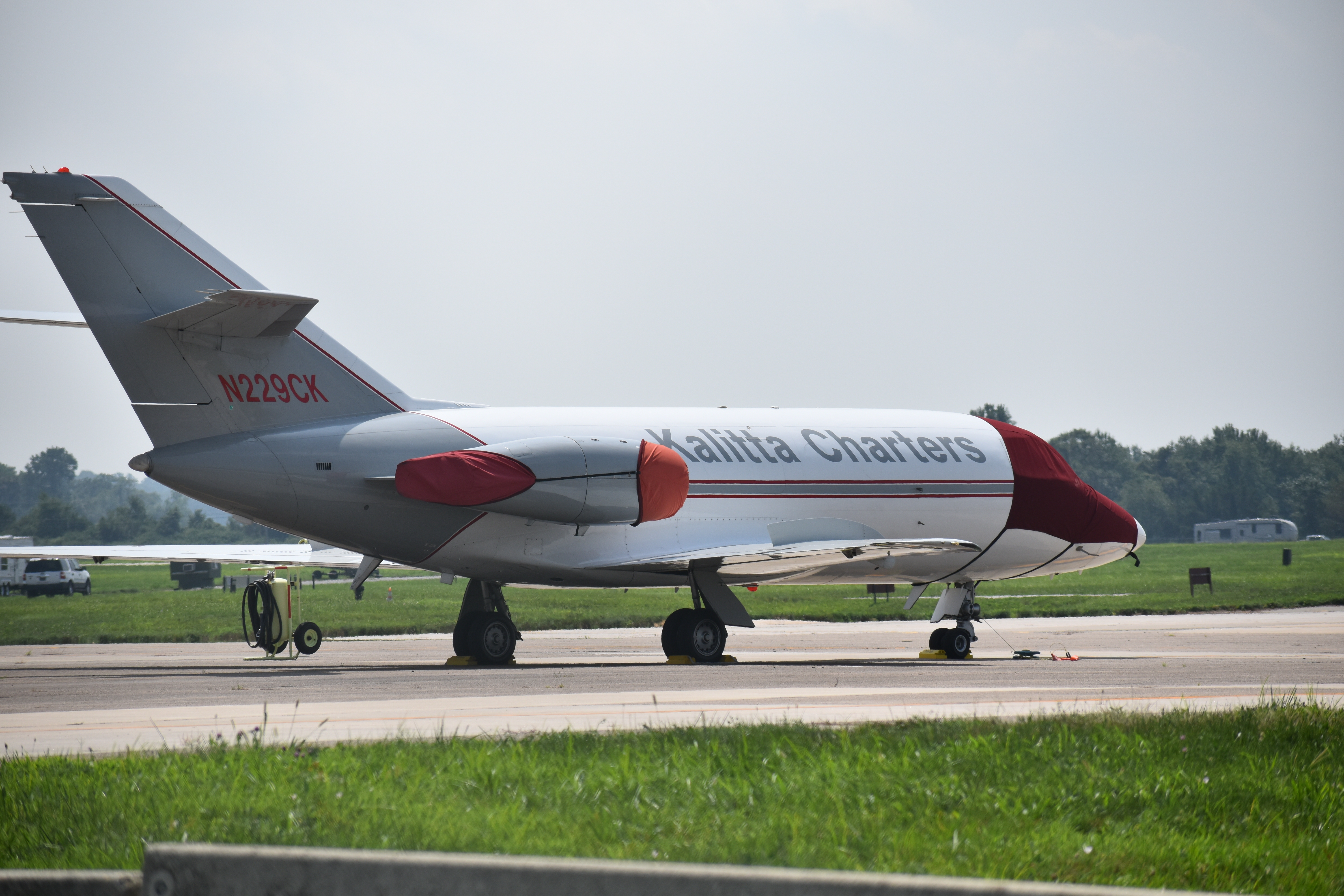 Kalitta Charters Dassault Falcon 20 plane (N229CK) at Dover Air Force Base, Dover, DE.